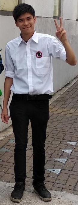 中文（香港）: District Council Election Campaign of Lester Shum (cropped).